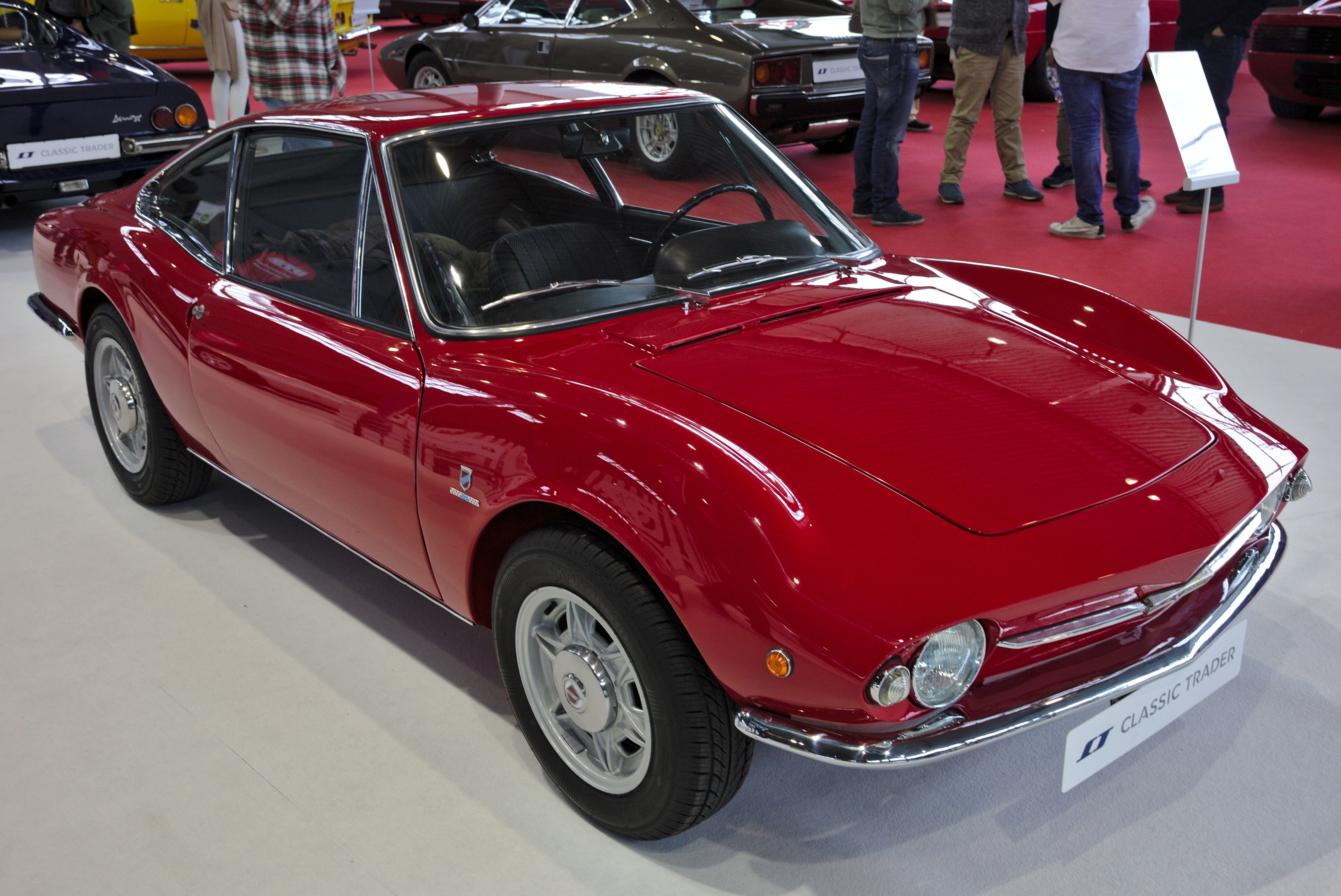 Fiat 850 Moretti Sportiva at Retro Classics 2018